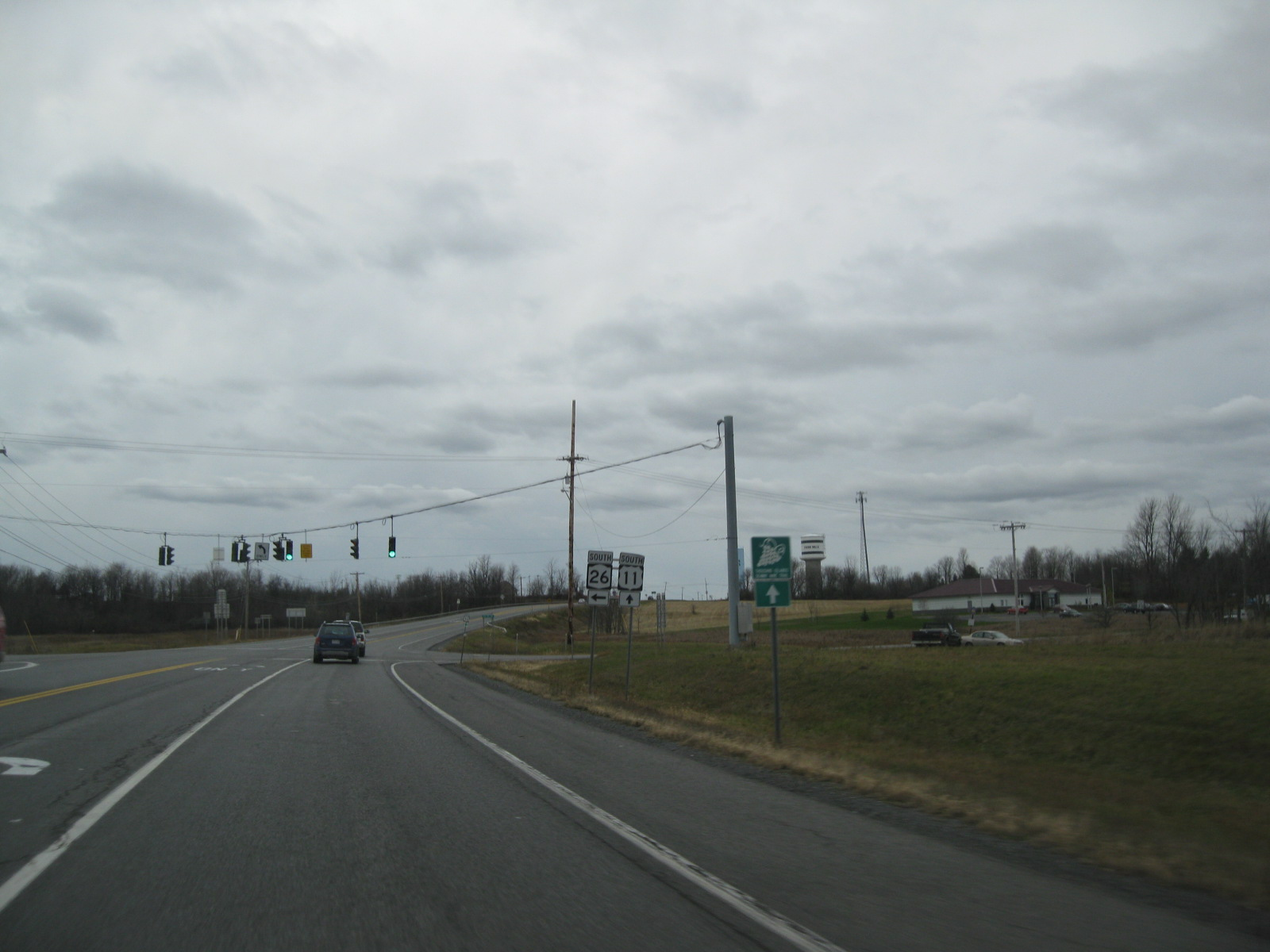 US Route 11 in New York at New York State Route 26 in town of Philadelphia